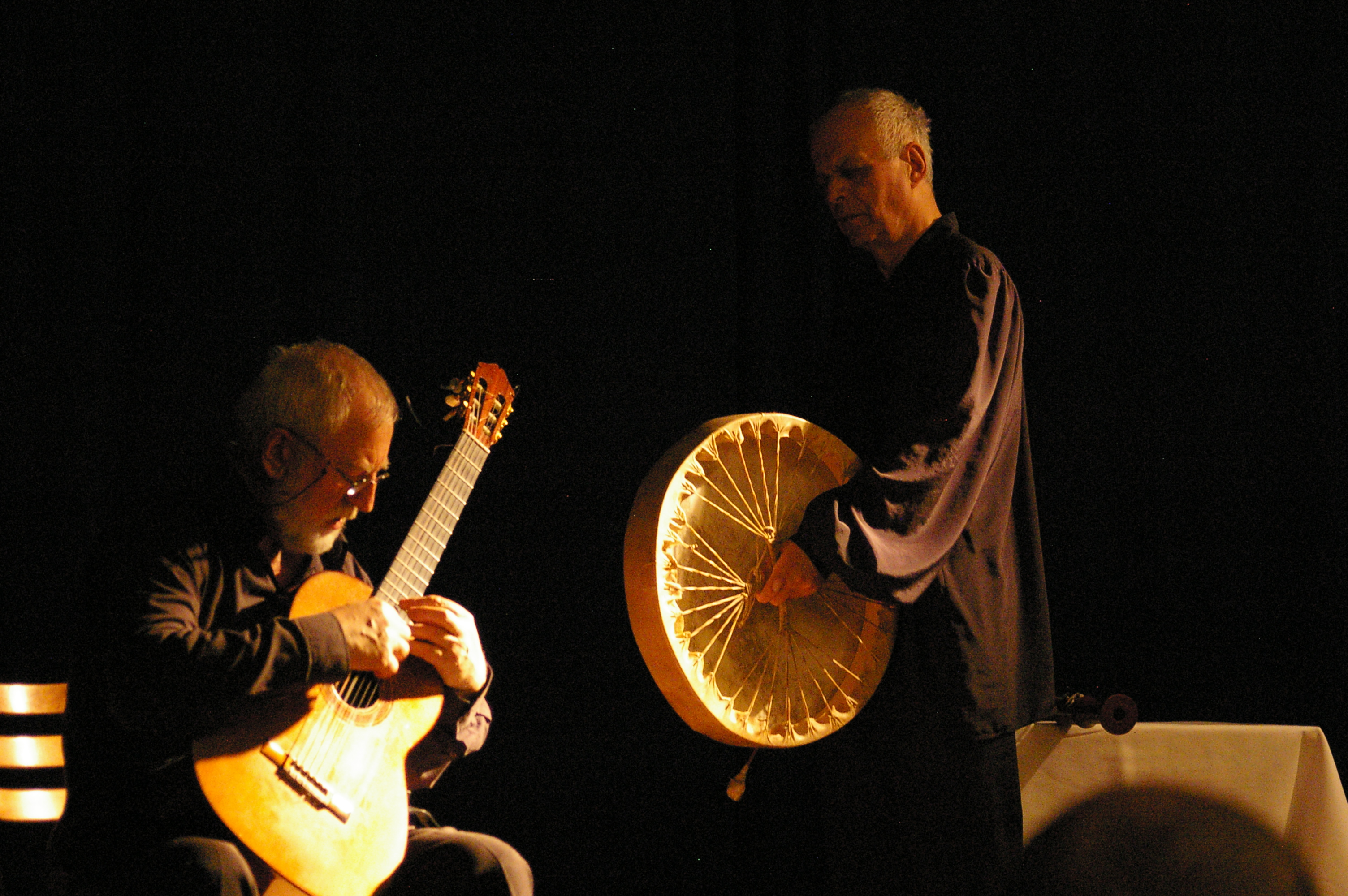 Štěpán Rak and Alfred Strejček Česky: Štěpán Rak a Alfred Strejček na České Konferenci v Poděbradech při představení Vivat Comenius